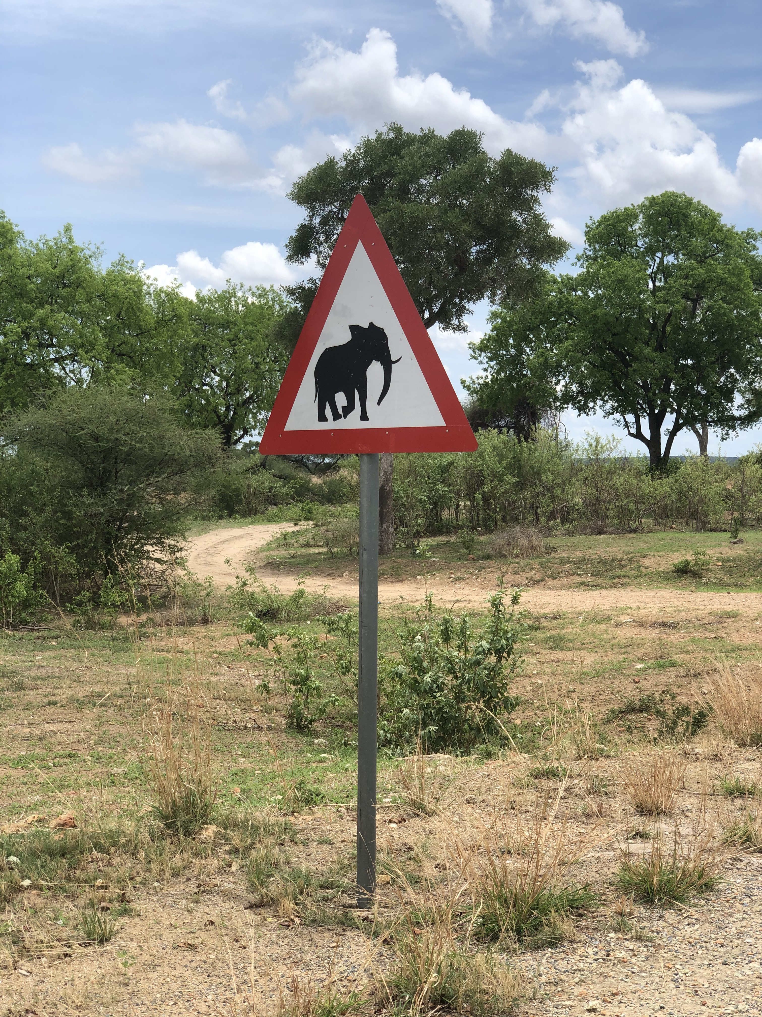 Road sign in Botswana